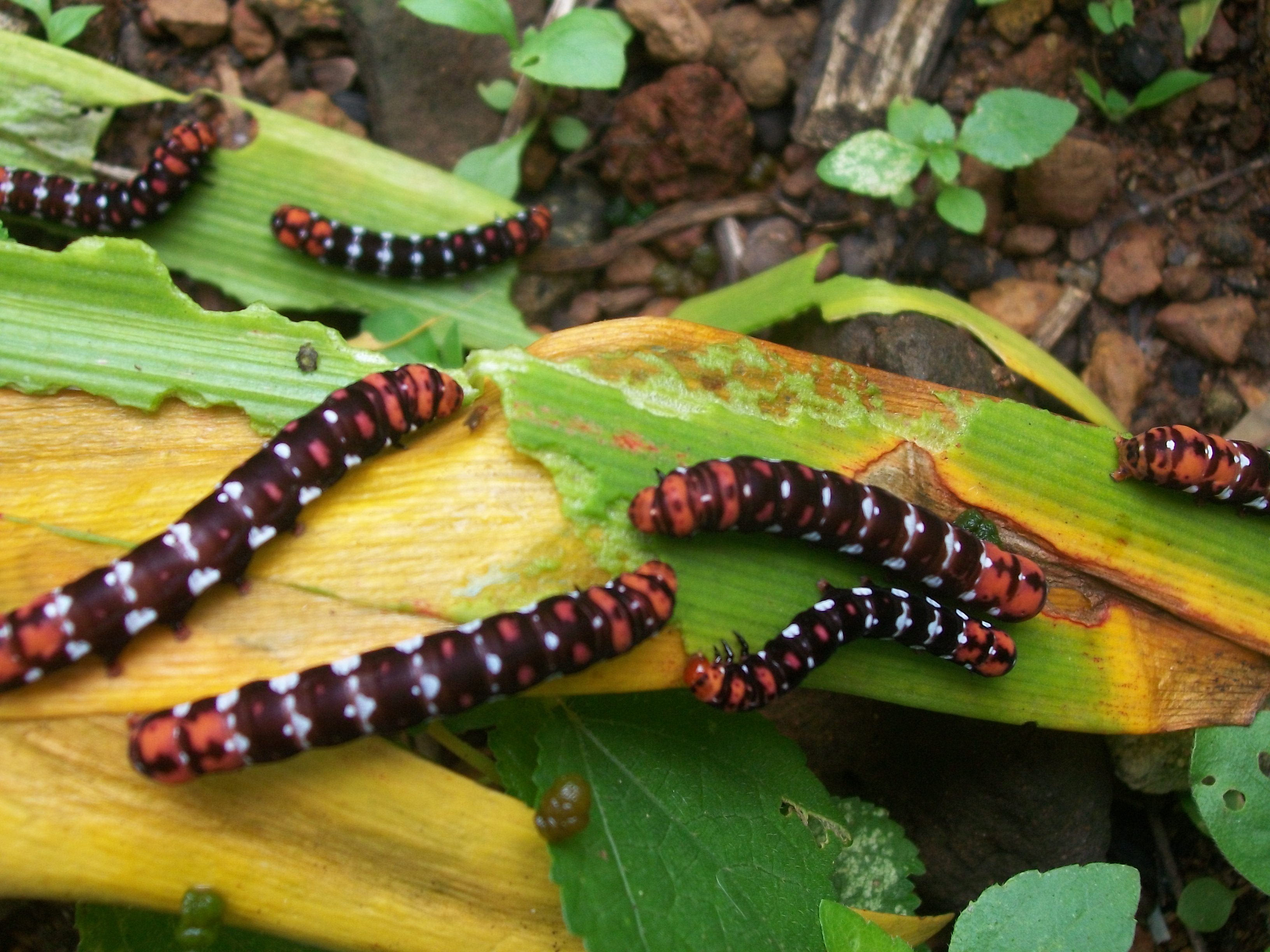 Polytela gloriosae in India